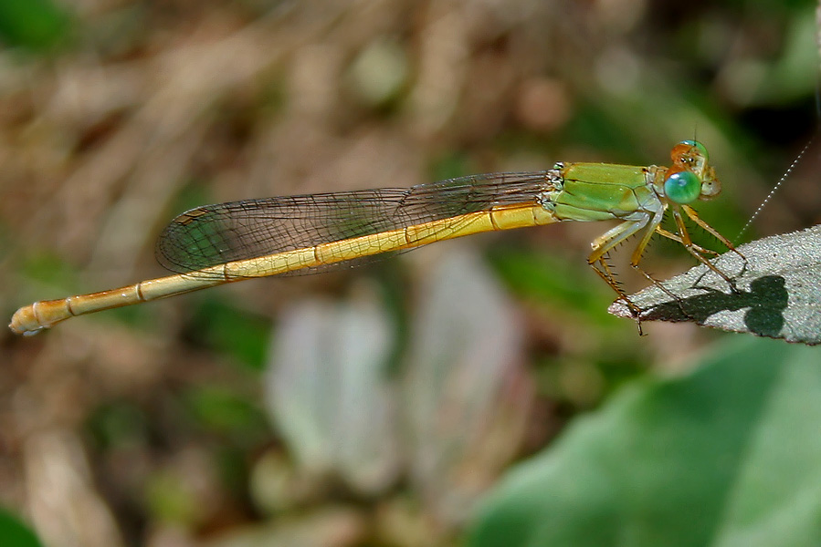 Ceriagrion coromandelianum - Coromandel Marsh Dart - at Deer Park in Shamirpet, Rangareddy district, Andhra Pradesh, India.